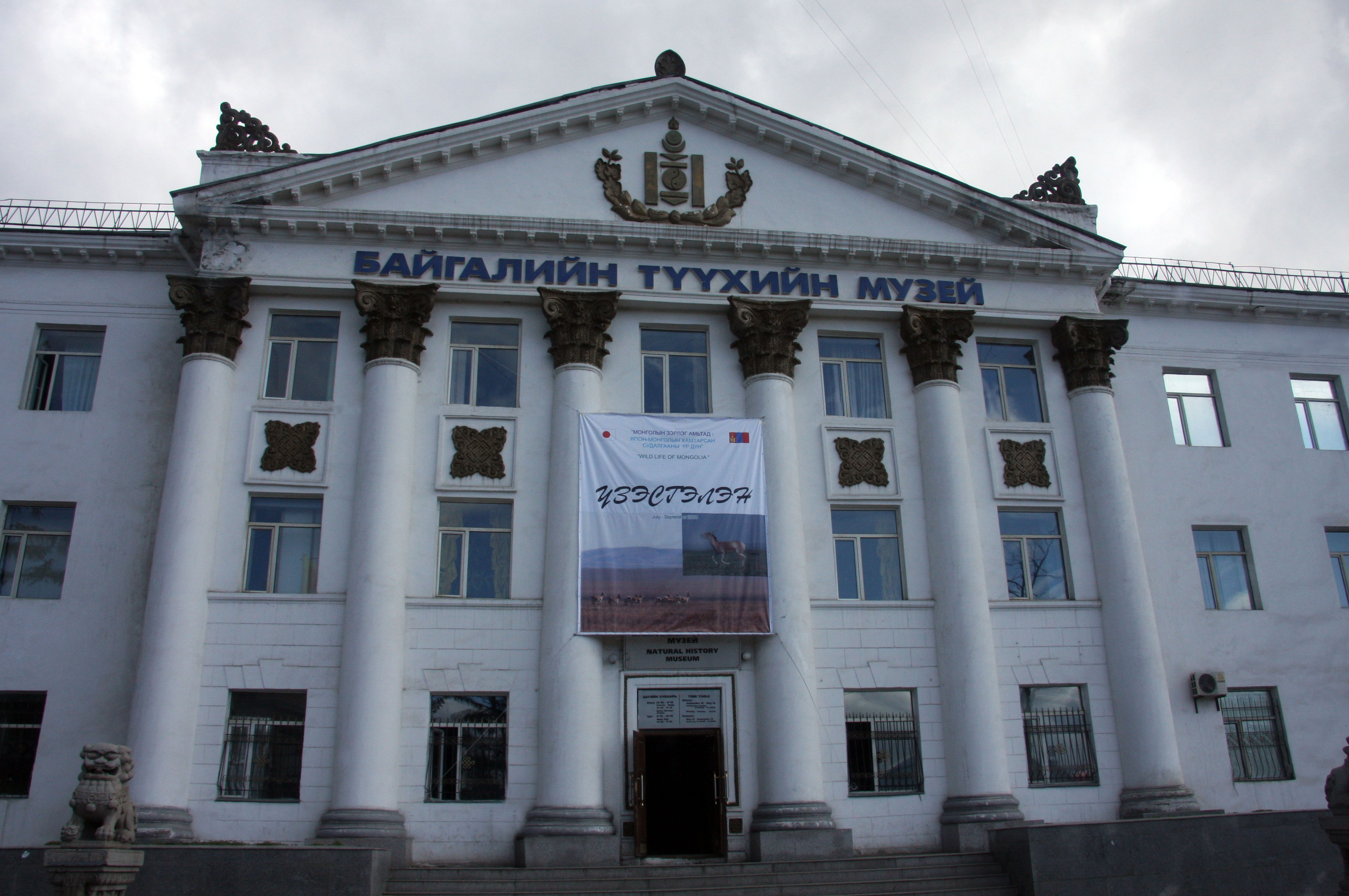 Mongolian Natural History Museum